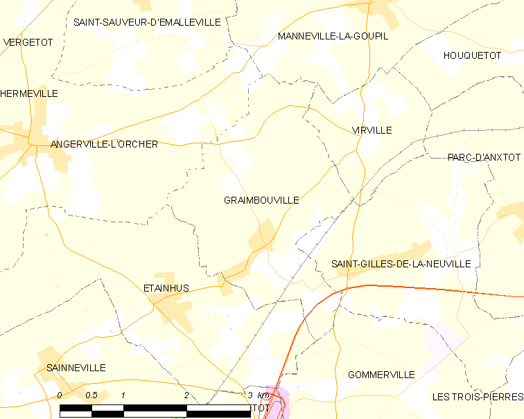 Map of French municipality Graimbouville